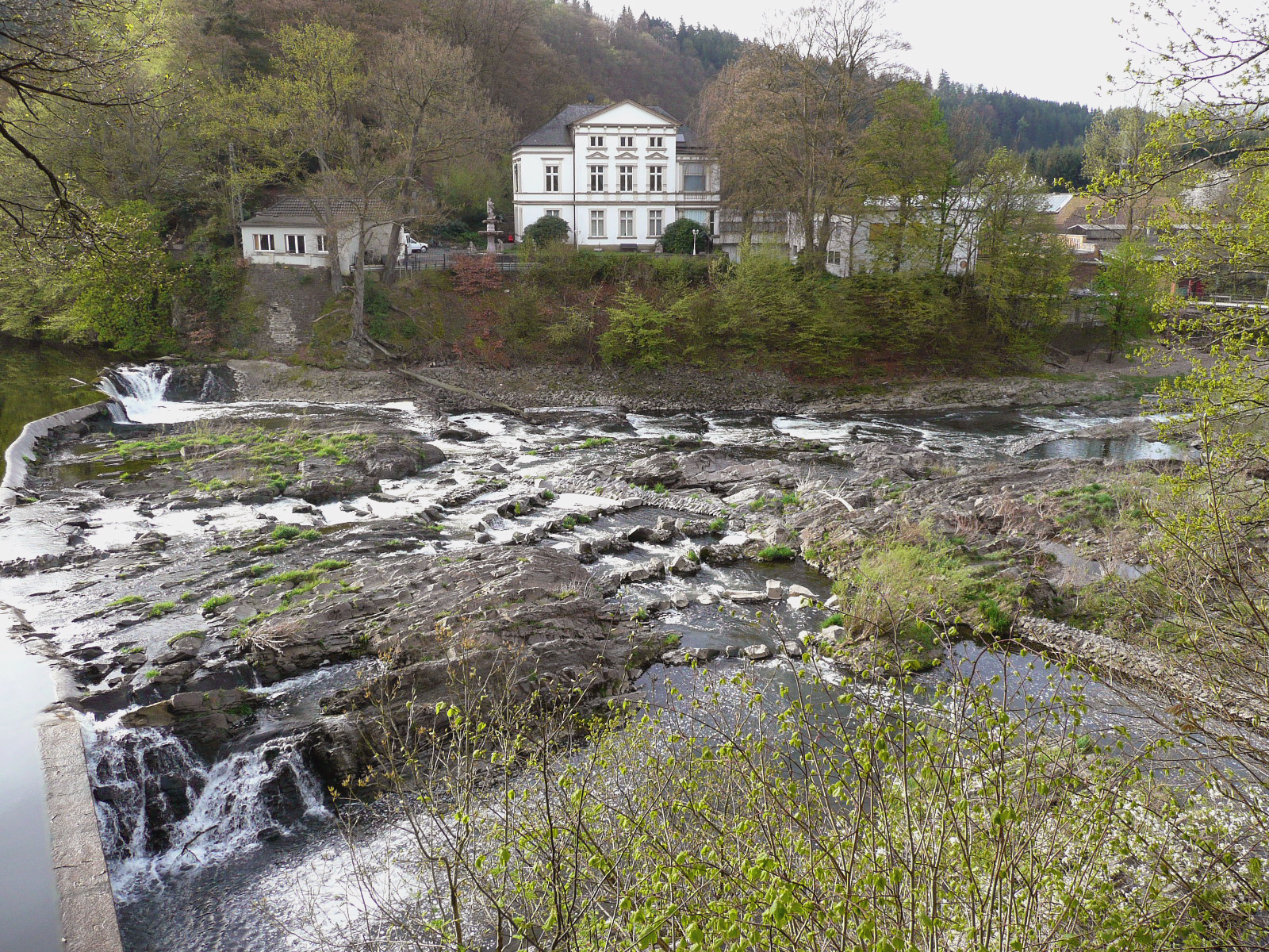 Waterfall of the Sieg river, in Schladern (Windeck), Rheinland-Pfalz